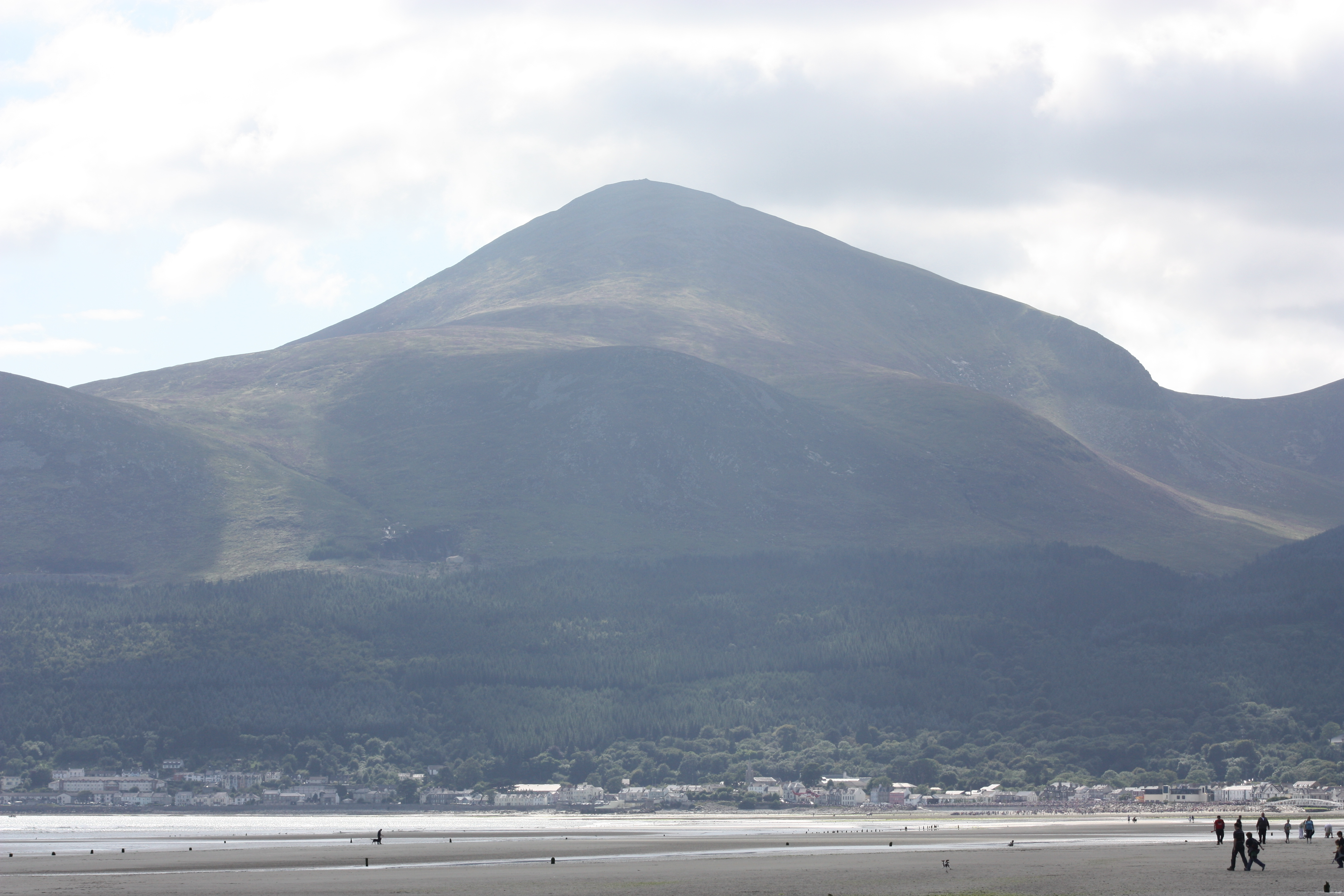 Murlough Beach, Newcastle, County Down, Northern Ireland, August 2010 (looking towards Newcastle, with Mourne Mountains in the background)